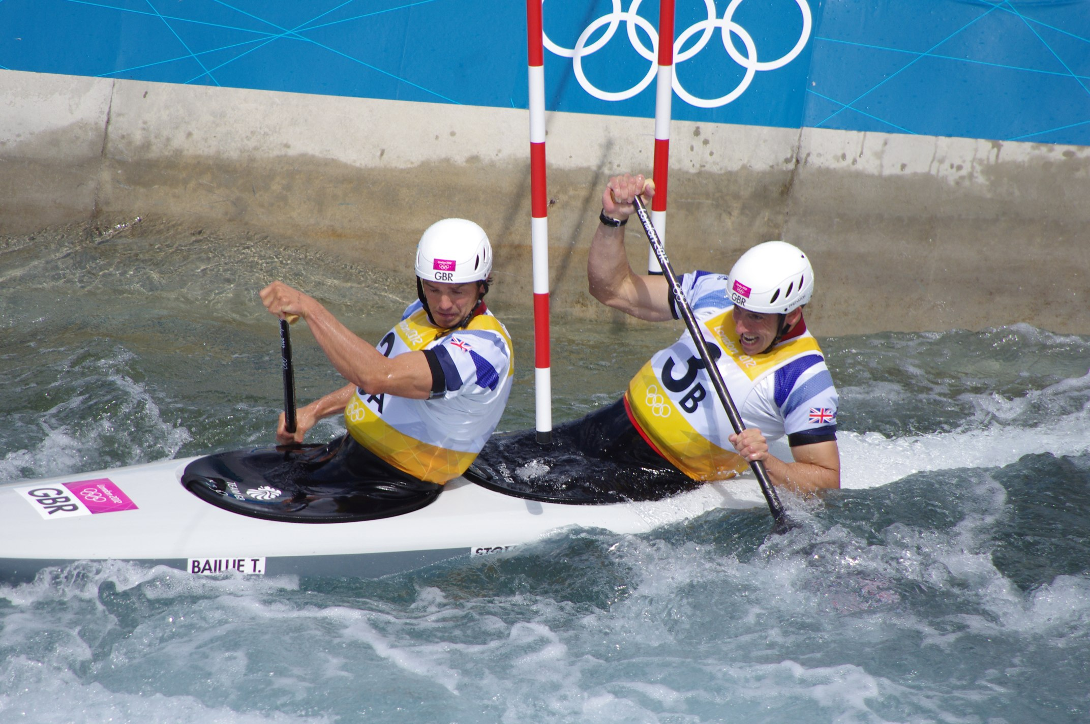 Canoeing at the 2012 Summer Olympics – Men's slalom C-2 Timothy Baillie (3A) and Etienne Stott (3B) (GBR)